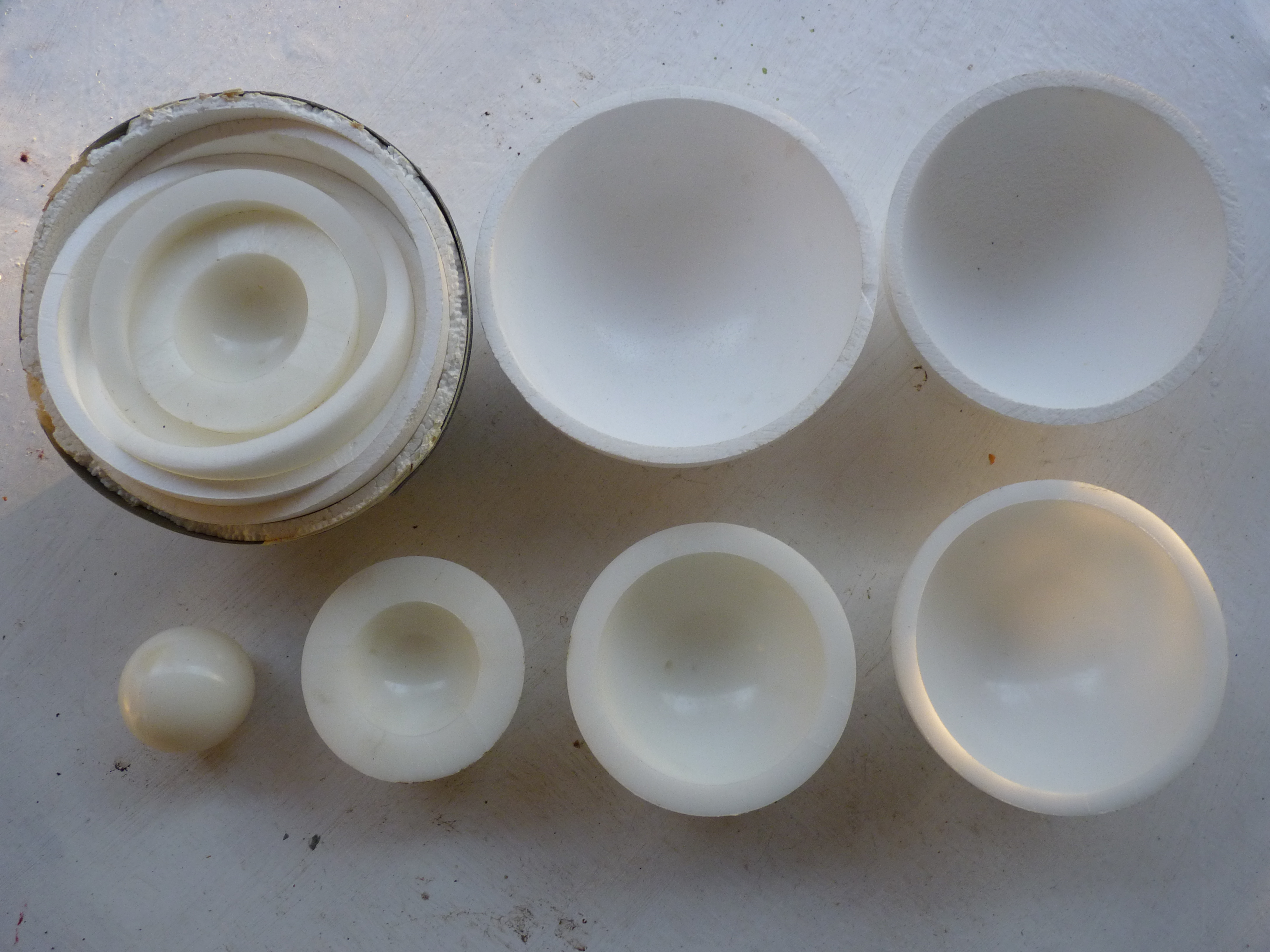 Parts of a Luneburg lens